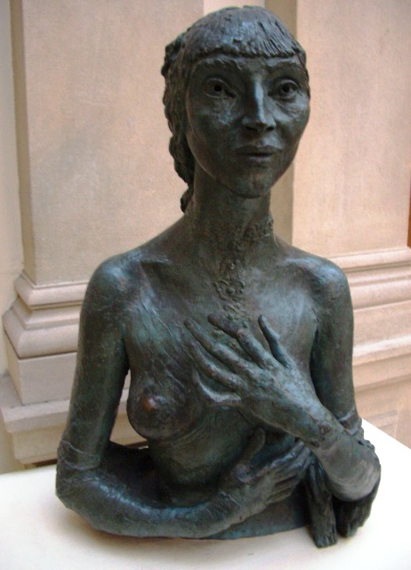 Photo by the contributor of the bronze bust "Kathlene" by Jacob Epstein in the City Art Gallery, Bristol. The bust was presented to the gallery by Lawrence Ogilvie.